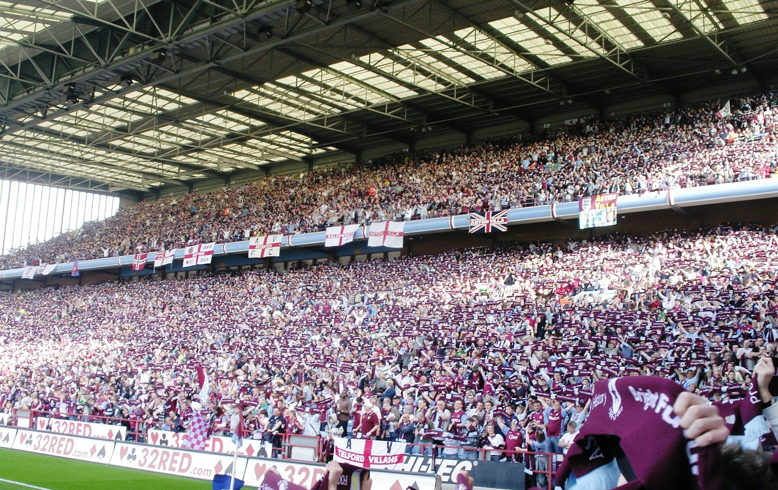 A photo of the Holte End with a full attendance on the 25th anniversary of the club's European cup win.